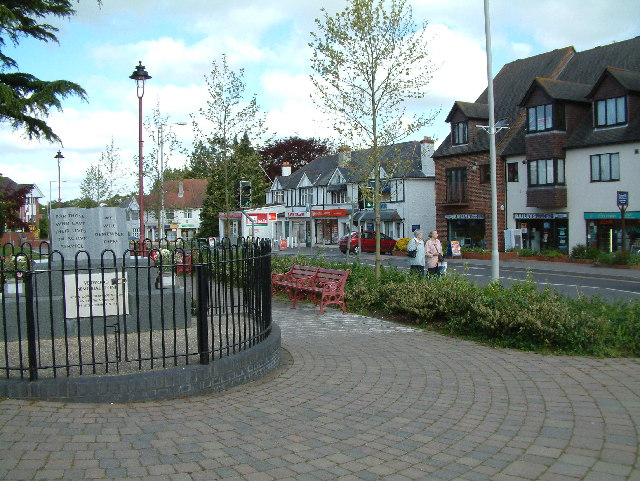 Verwood centre. Some people think the name derives from 'Fayre wood' from the many trees in the area. In the 1960's and 70's many new estates sprang up and by the 1990's it was feared that over development could take place.